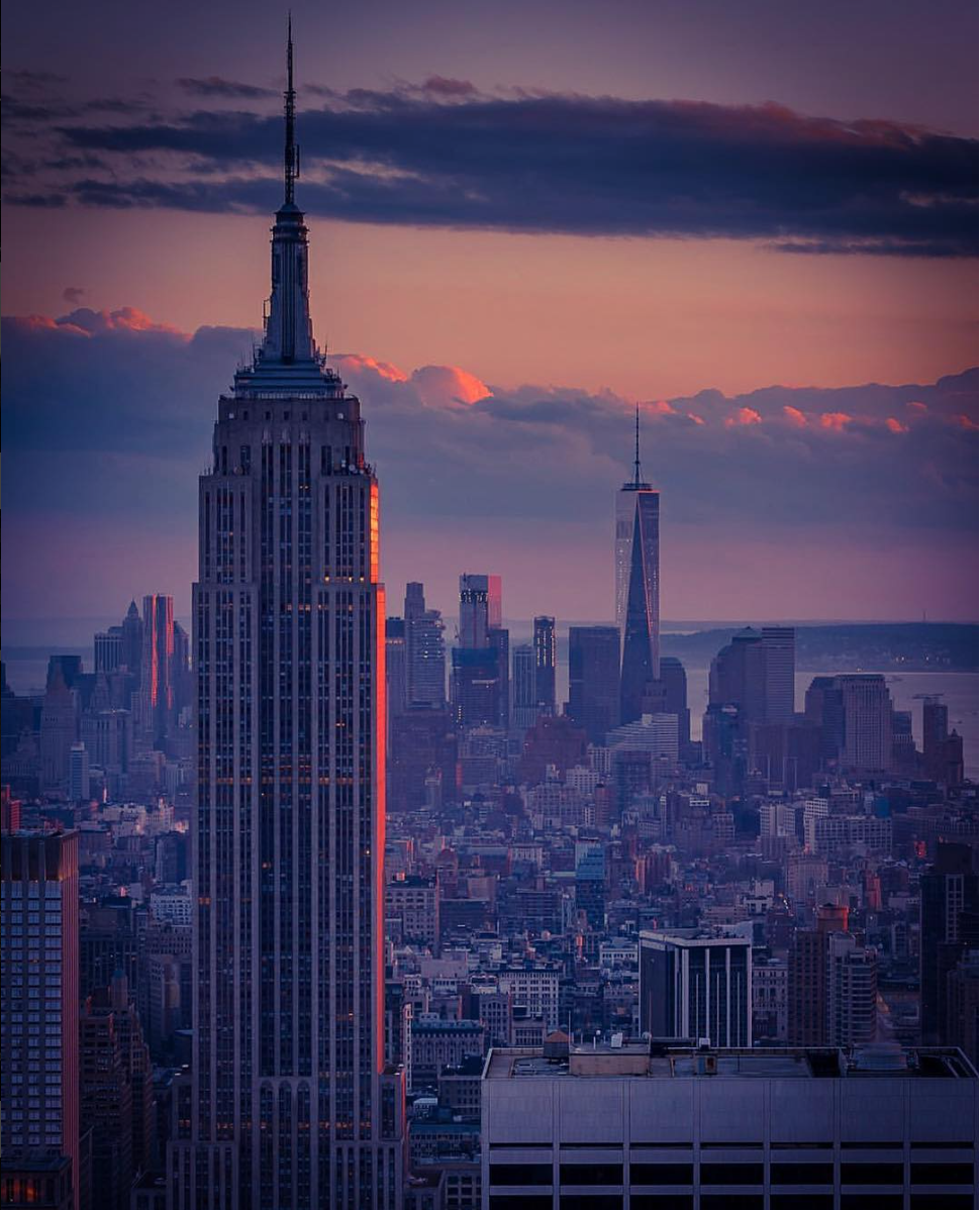 View of the empire state building from the top of the Rockefeller building with the one world trade center in the background